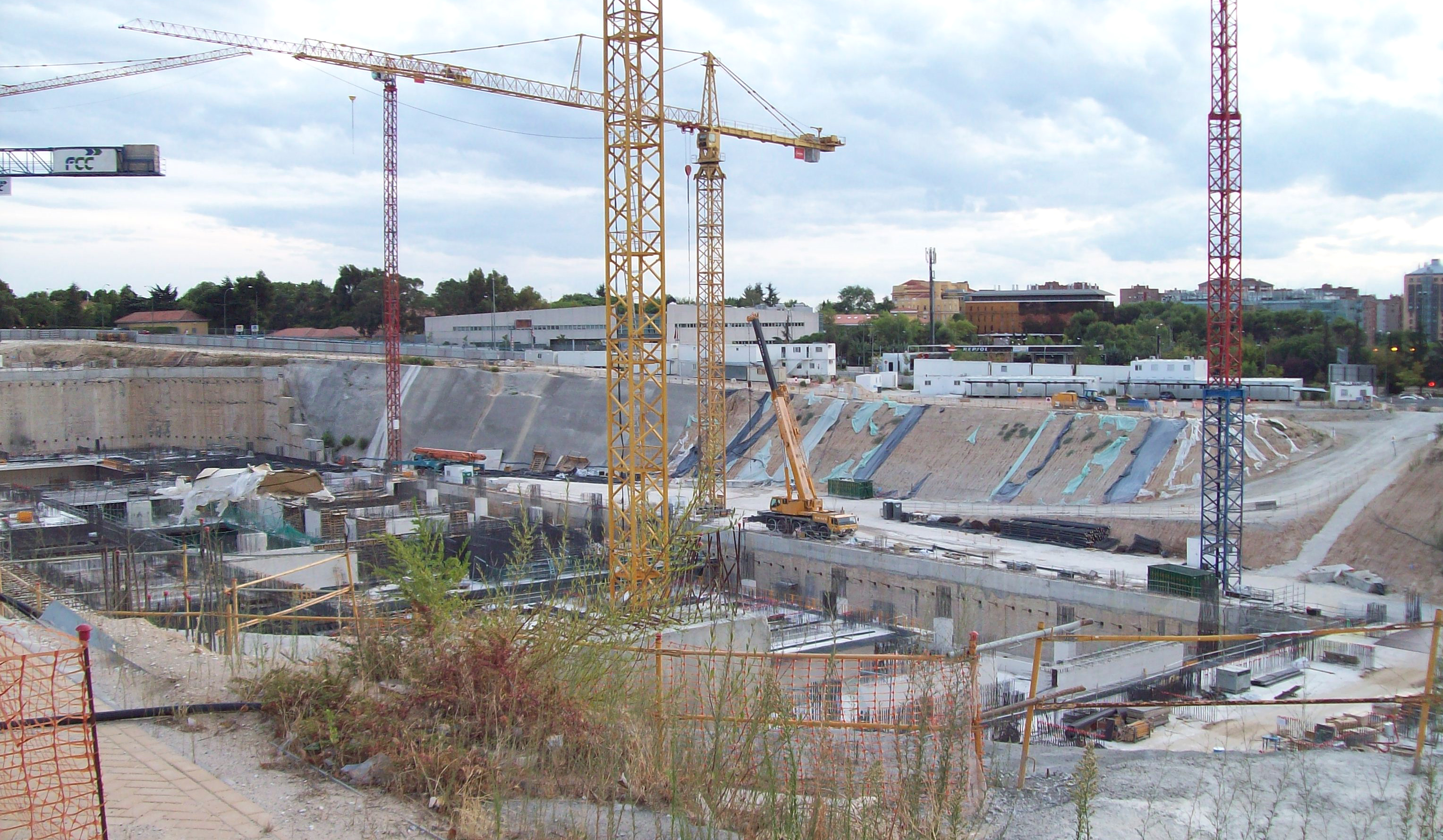 Construction works of the International Convention Center of the City of Madrid (CICCM), beside Cuatro Torres Business Area (Madrid, Spain).